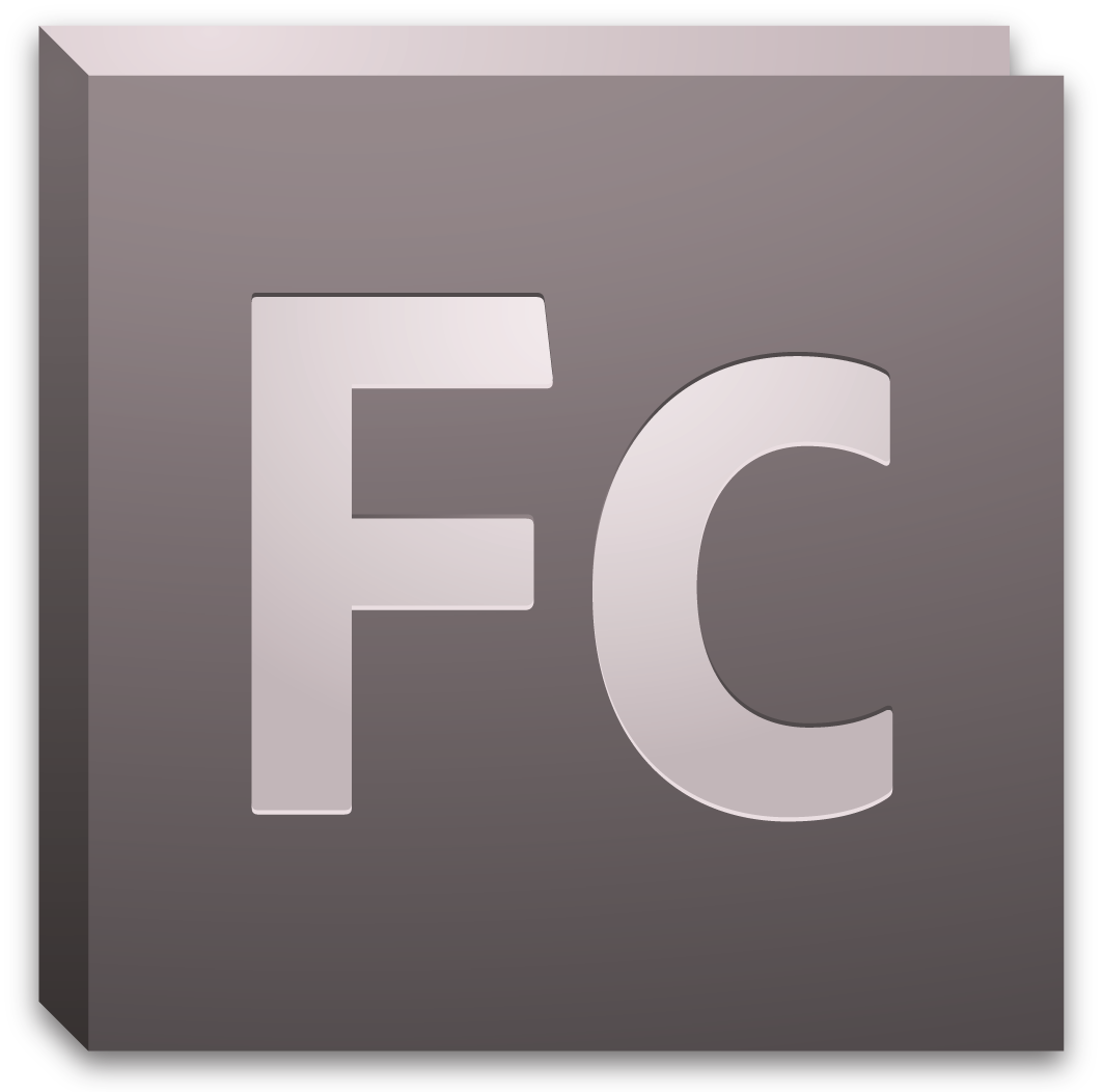 This is a logo for Adobe Flash Catalyst.